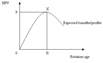 Graph